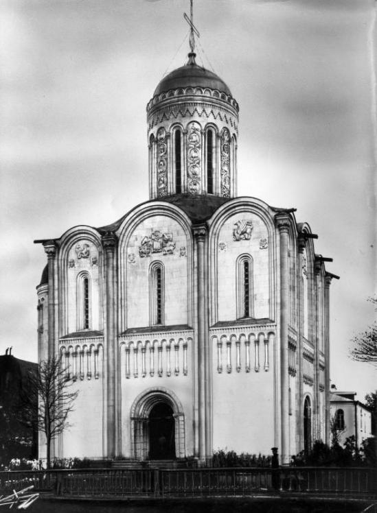 Christ the Saviour Church at the Angliiskaya Embankment in Saint Petersburg („on Waters“). The church was built in 1909-11 from public donations. It is designed in the style of 12th century Vladimir-Suzdal architecture (engineer S. S. Smirnov, to the plans of architect M. M. Peretyatkovich). In 1932, the church was closed and demolished. Photo taken by 1910s.